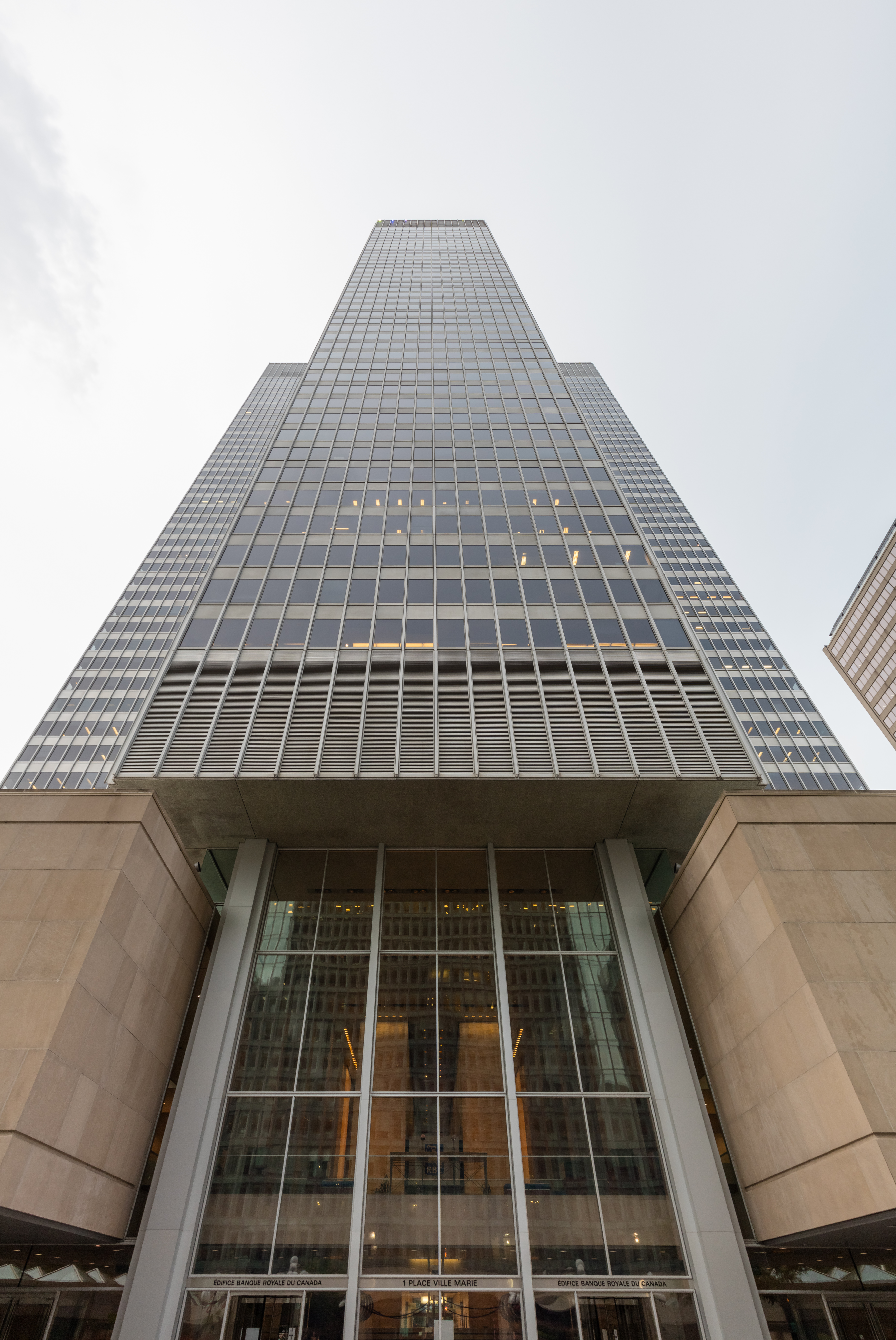 1 Place Ville-Marie, Montreal, Canada